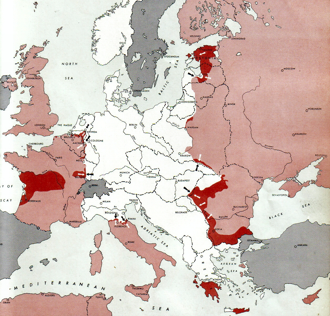 Map of the front against Germany: This map is taken from the source "Atlas of the World Battle Fronts in Semimonthly Phases to August 15th 1945: Supplement to The Biennial report of The Chief of Staff of the United States Army July 1, 1943 to June 30 1945 To the Secretary of War". (See Cover, Forward and Map details)